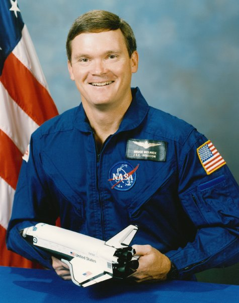 Bruce E. Melnick, Commander USCG and American Mission specialist to STS-41 and STS-49.